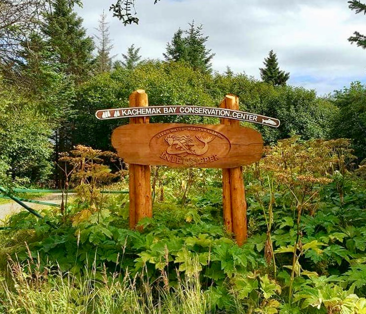 Kachemak Bay Conservation Center, home to Cook Inletkeeper